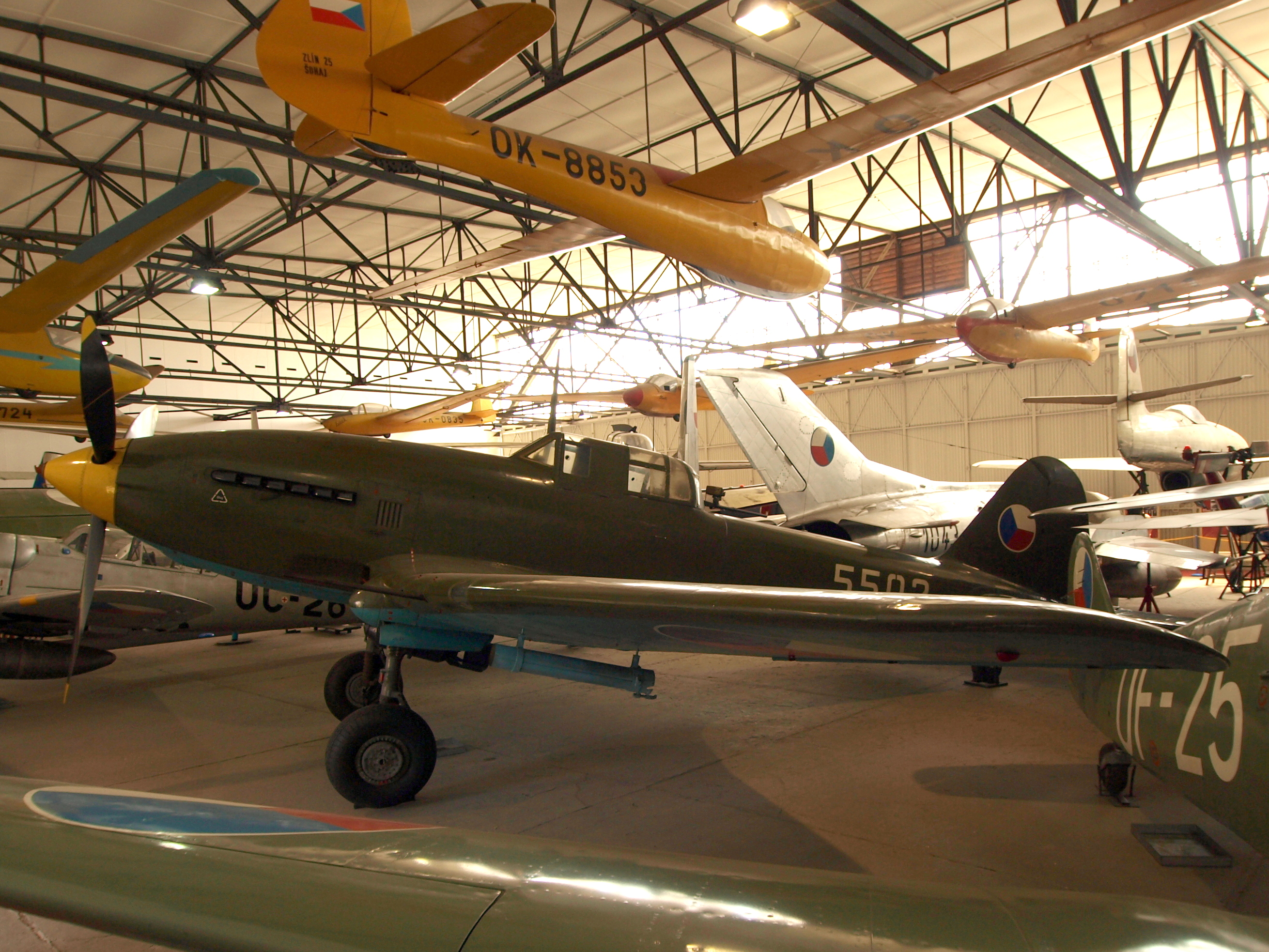 Avia B-33 (Iljusin Il019 Beast) Czech airforce 5502, VU 2475. Photograph taken without a tripod (was not allowed!).